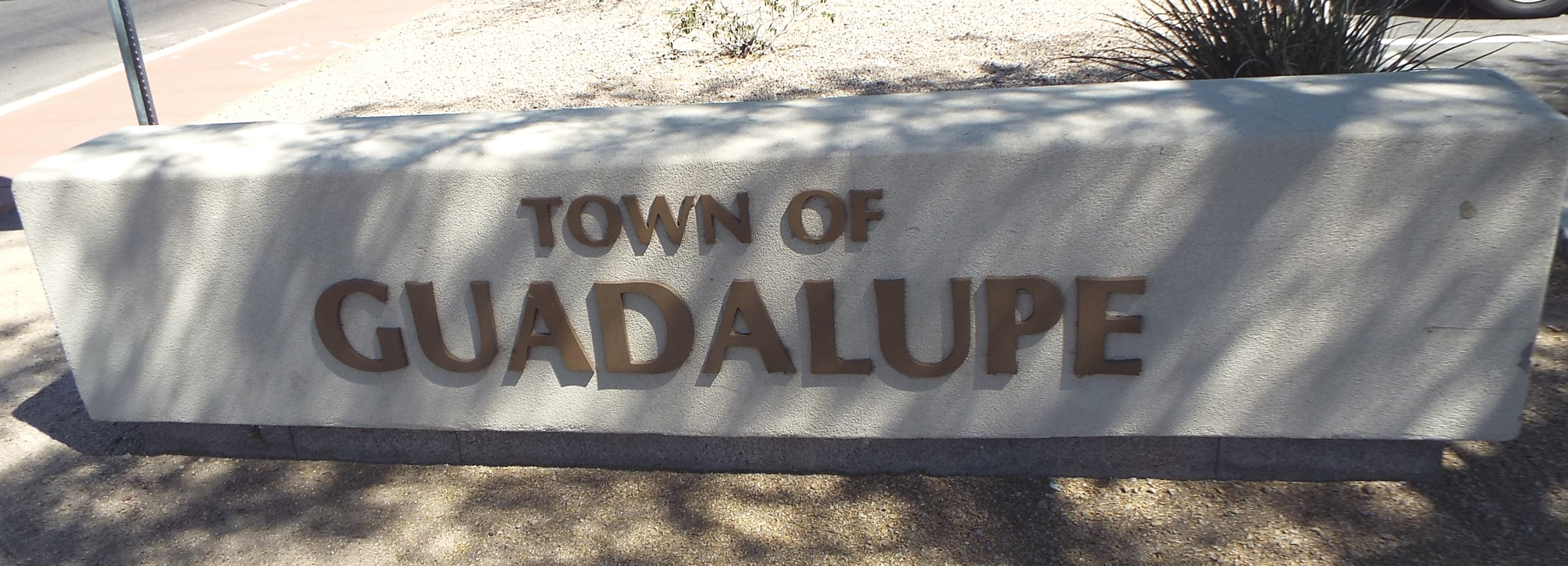 City of Guadalupe Marker in Guadalupe, Az.